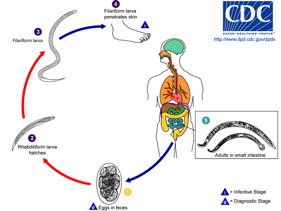 hookworm lifecycle Eggs are passed in the stool , and under favorable conditions (moisture, warmth, shade), larvae hatch in 1 to 2 days. The released rhabditiform larvae grow in the feces and/or the soil , and after 5 to 10 days (and two molts) they become filariform (third-stage) larvae that are infective . These infective larvae can survive 3 to 4 weeks in favorable environmental conditions. On contact with the human host, the larvae penetrate the skin and are carried through the veins to the heart and then to the lungs. They penetrate into the pulmonary alveoli, ascend the bronchial tree to the pharynx, and are swallowed . The larvae reach the small intestine, where they reside and mature into adults. Adult worms live in the lumen of the small intestine, where they attach to the intestinal wall with resultant blood loss by the host . Most adult worms are eliminated in 1 to 2 years, but longevity records can reach several years. Some A. duodenale larvae, following penetration of the host skin, can become dormant (in the intestine or muscle). In addition, infection by A. duodenale may probably also occur by the oral and transmammary route. N. americanus, however, requires a transpulmonary migration phase.